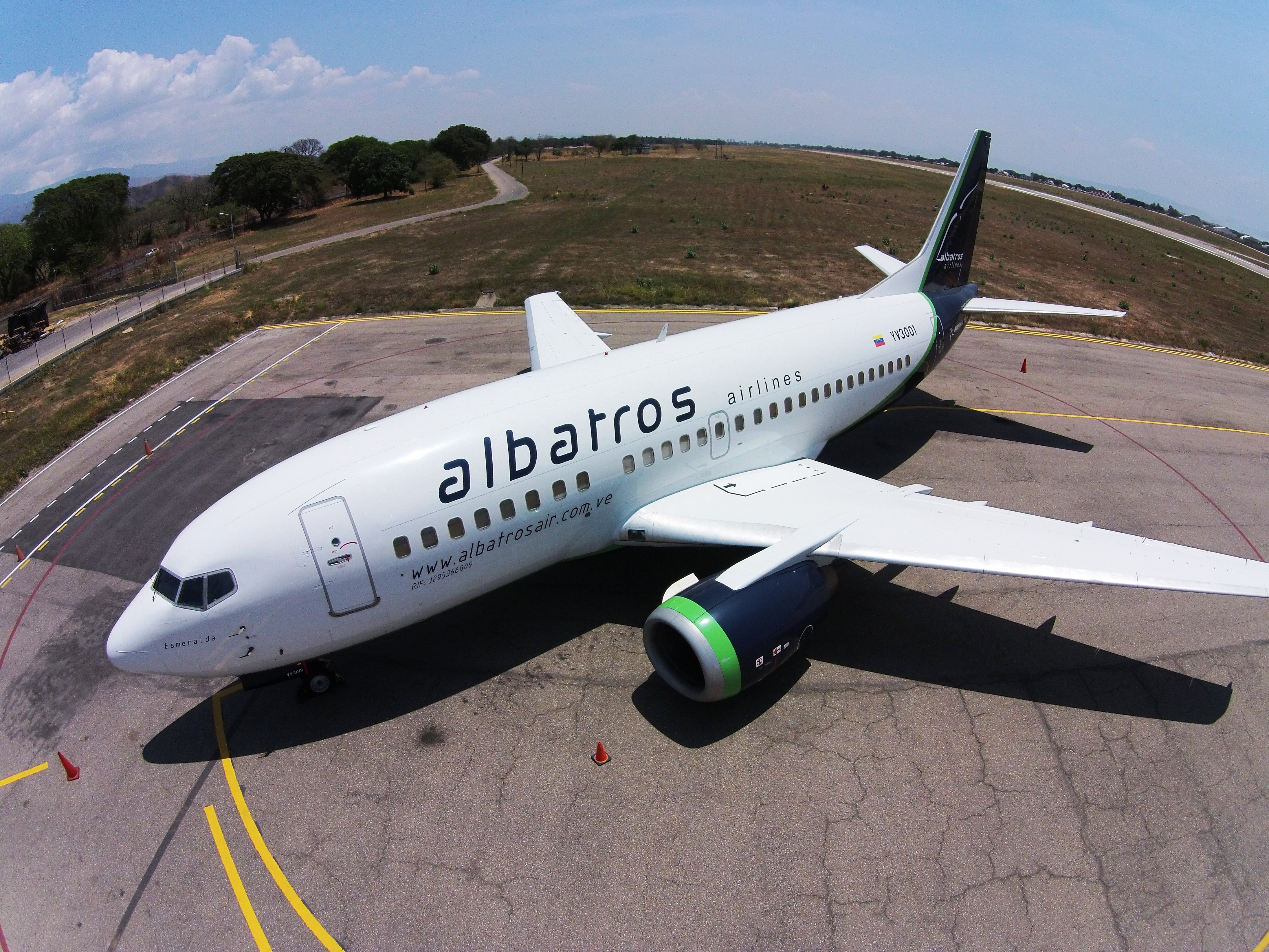 Boeing 737-500 Albatros Airlines Venezuela